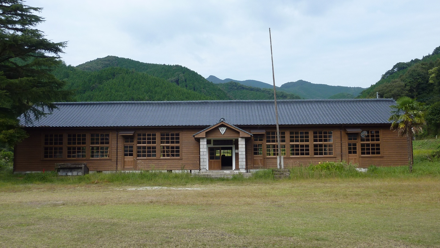 Ruin of Fuke Elementary School (Isa City, Kagoshima Prefecture, Japan)